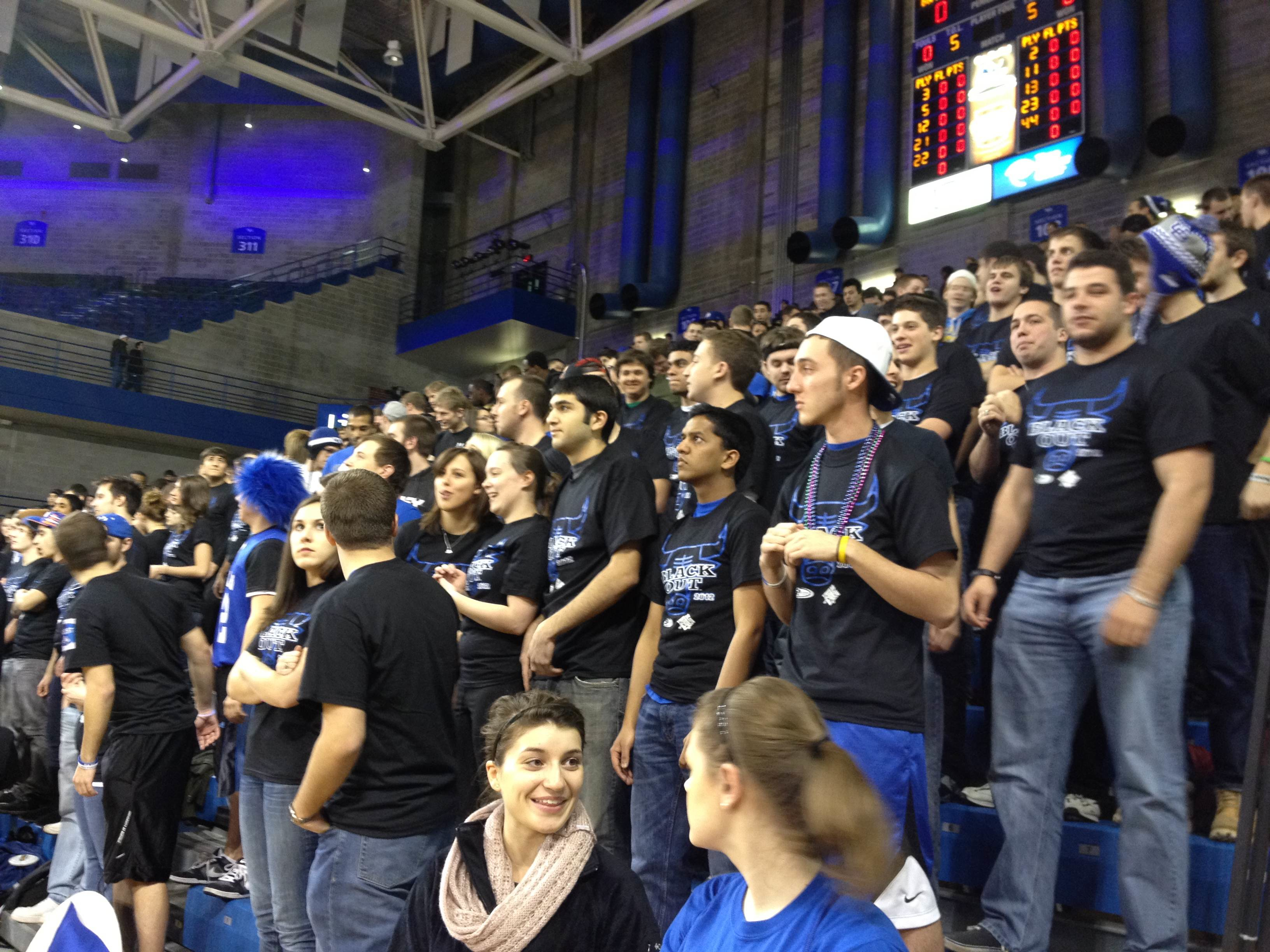 True Blue student section at a 2012 Buffalo Bulls Basketball Game